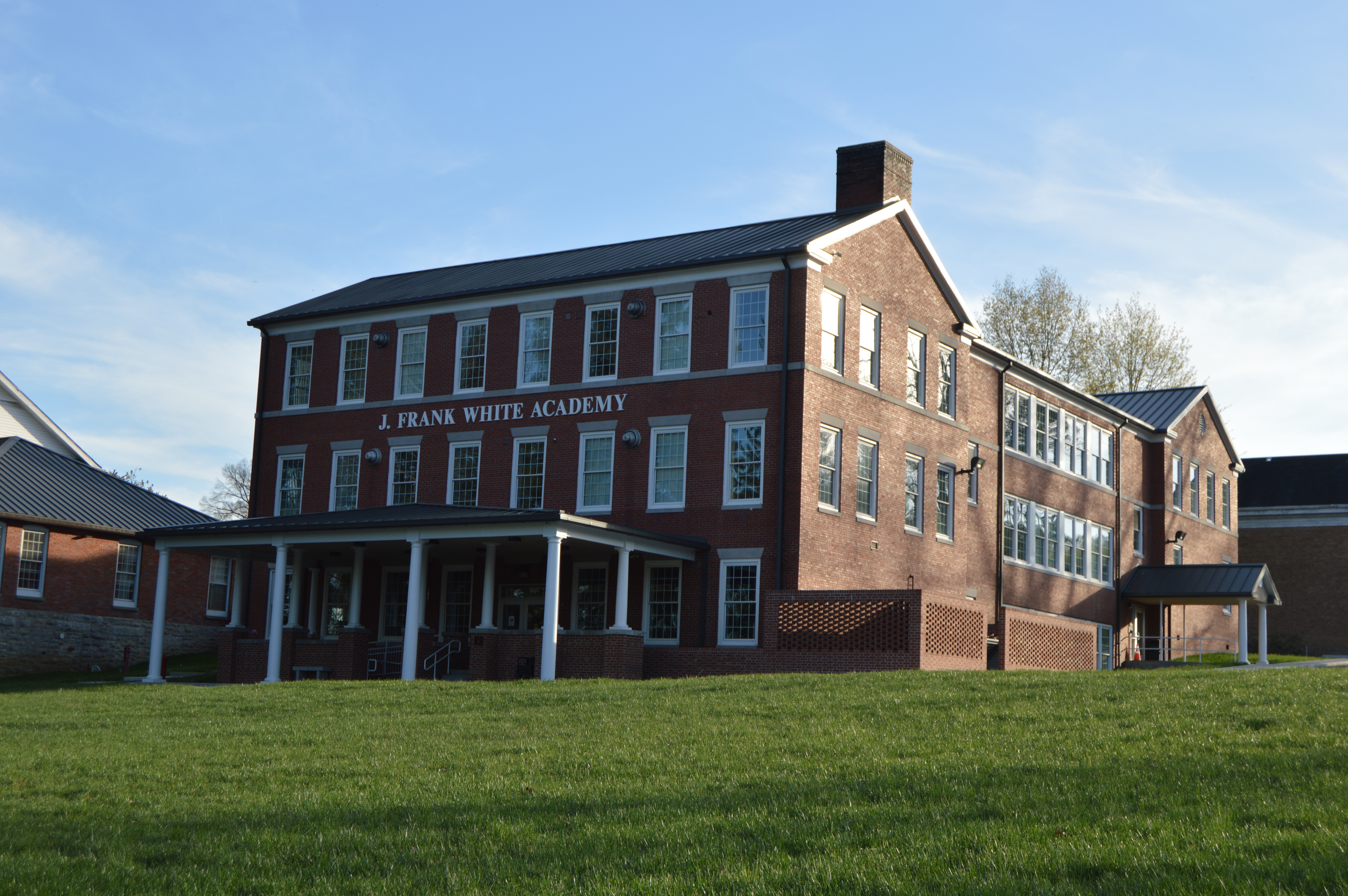 Front and northern side of the J. Frank White Academy, located on the campus of Lincoln Memorial University in Harrogate, Tennessee, United States.